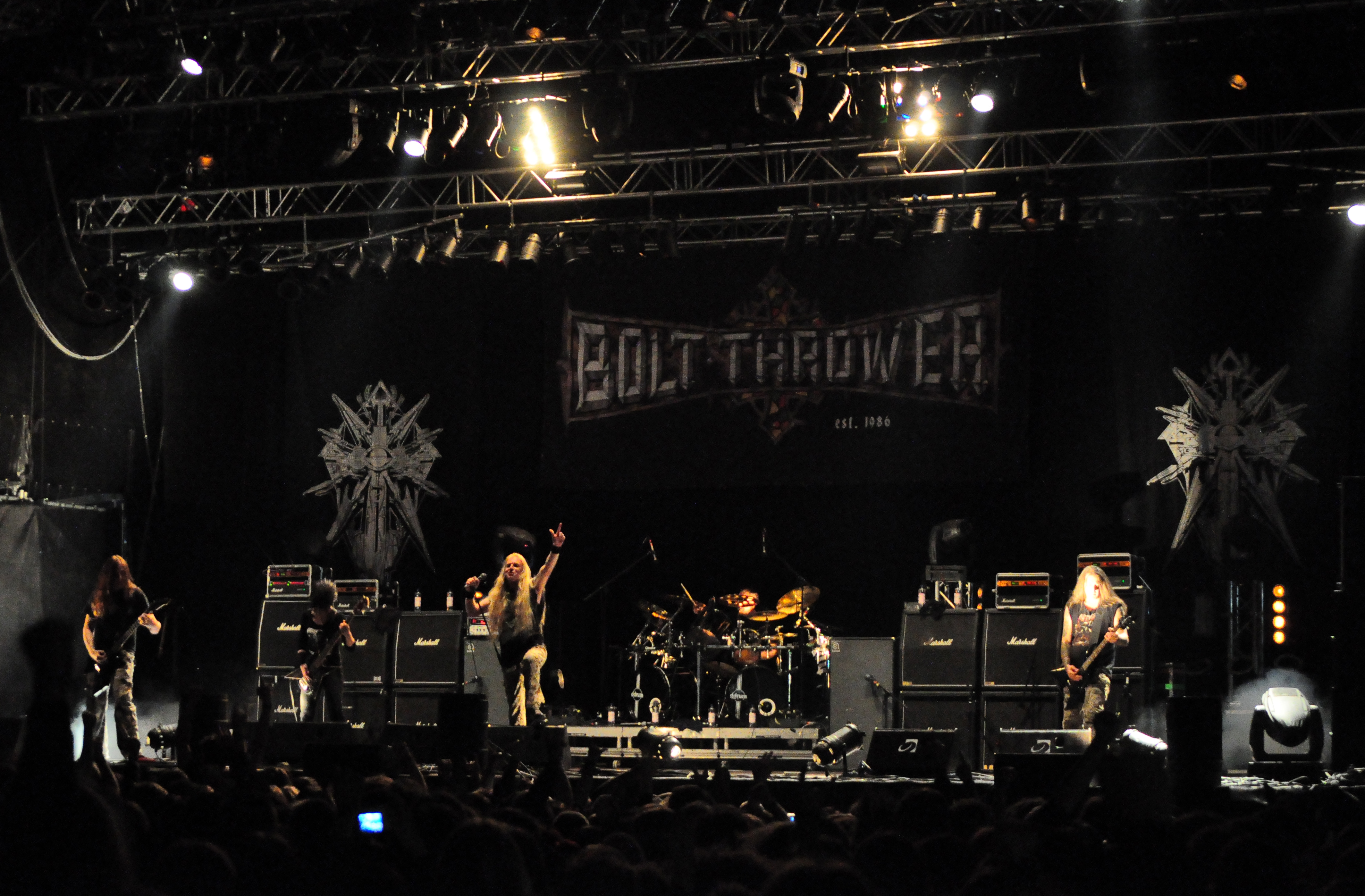 Bolt Thrower at Party.San Open Air 2012